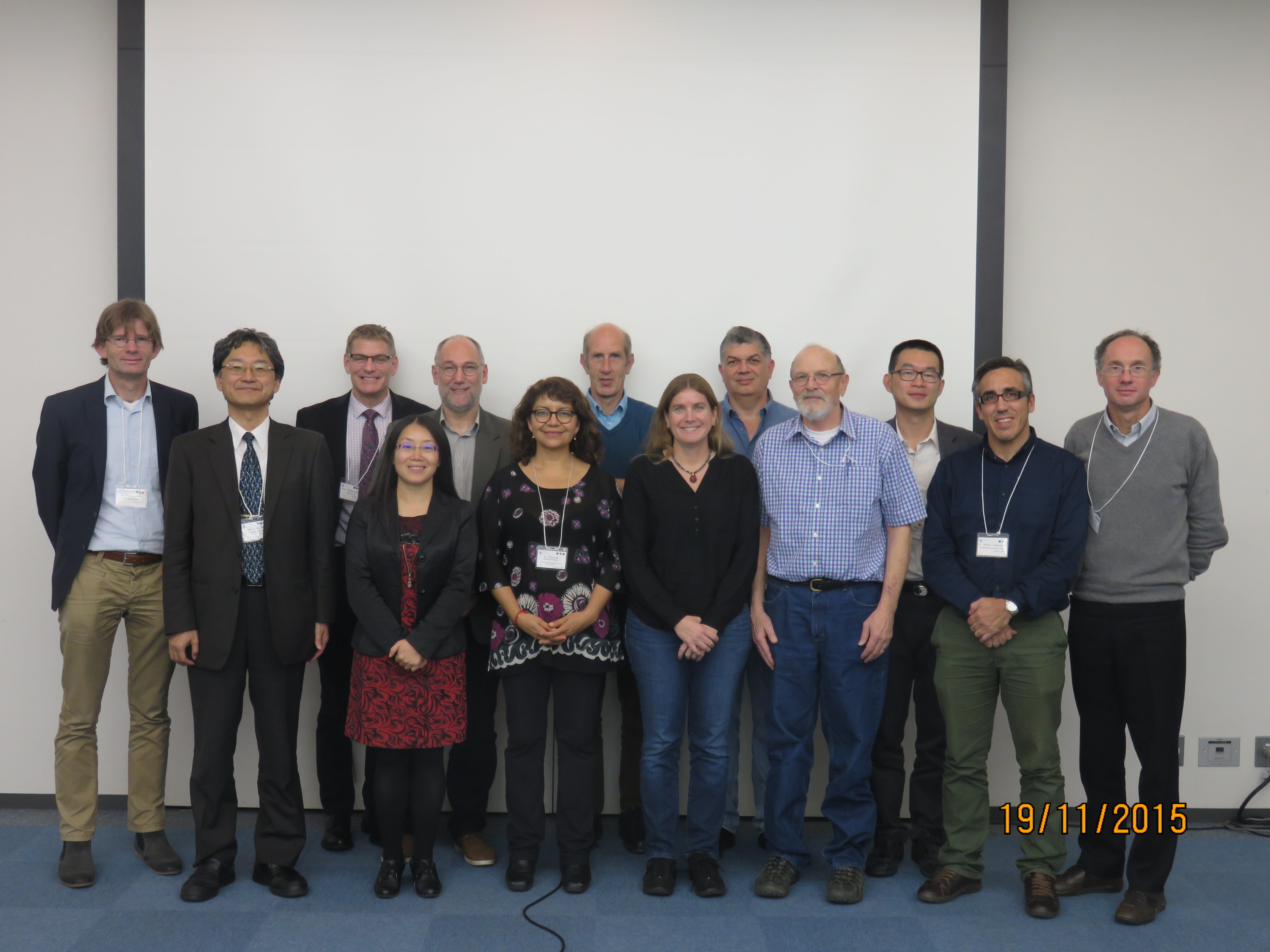 Members of the UNESCO Working Group on Land Subsidence. Nagoya, Japan, 2015